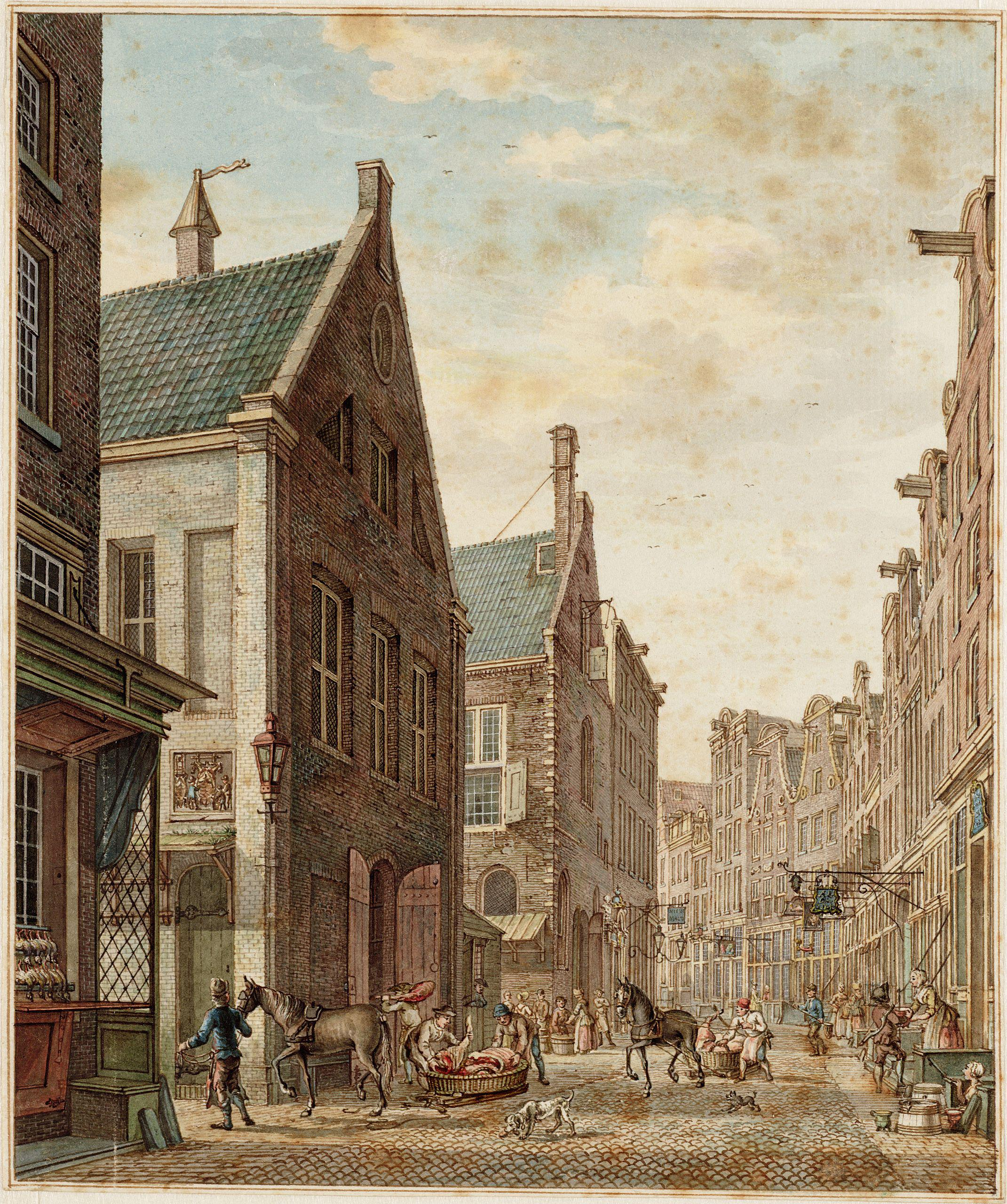 Nes 41-49